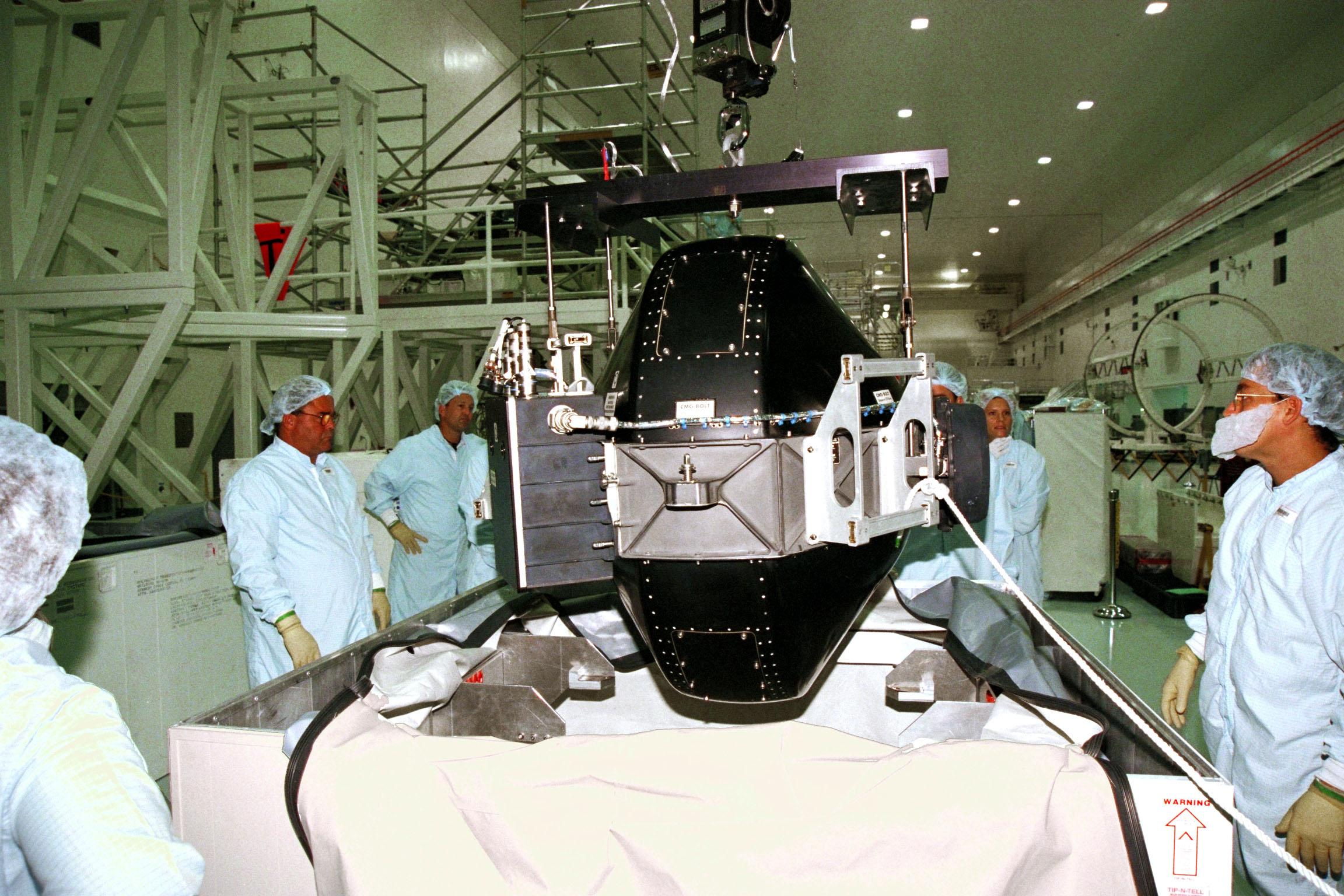 Gyroscope of the International Space Station Boeing technicians remove the cover from a Control Moment Gyroscope (CMG) in the Space Station Processing Facility at KSC. The CMG will be attached to the Integrated Truss Structure (ITS) Z1. Gyroscopes are used for stabilization of the International Space Station (ISS). The CMG and Z1, part of the construction of the ISS, will be carried on STS-92, the third U.S. flight planned for on-orbit construction of the ISS. STS-92 is scheduled for liftoff on June 17, 1999, aboard the Space Shuttle Atlantis.